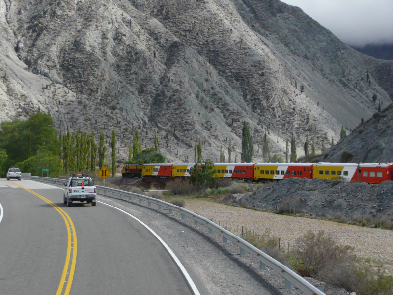 "Tren a las Nubes" (train to the clouds), Salta Province (Argentina).